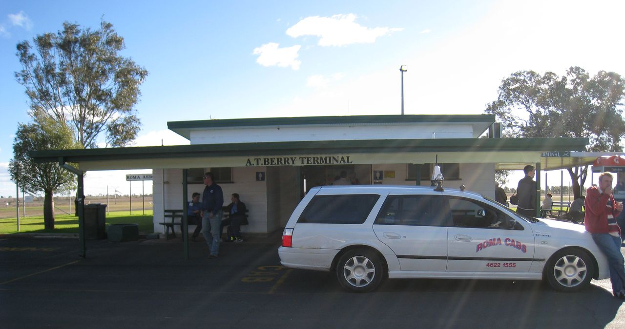 The A.T. Berry Terminal at the Roma Airport, Queensland, Australia